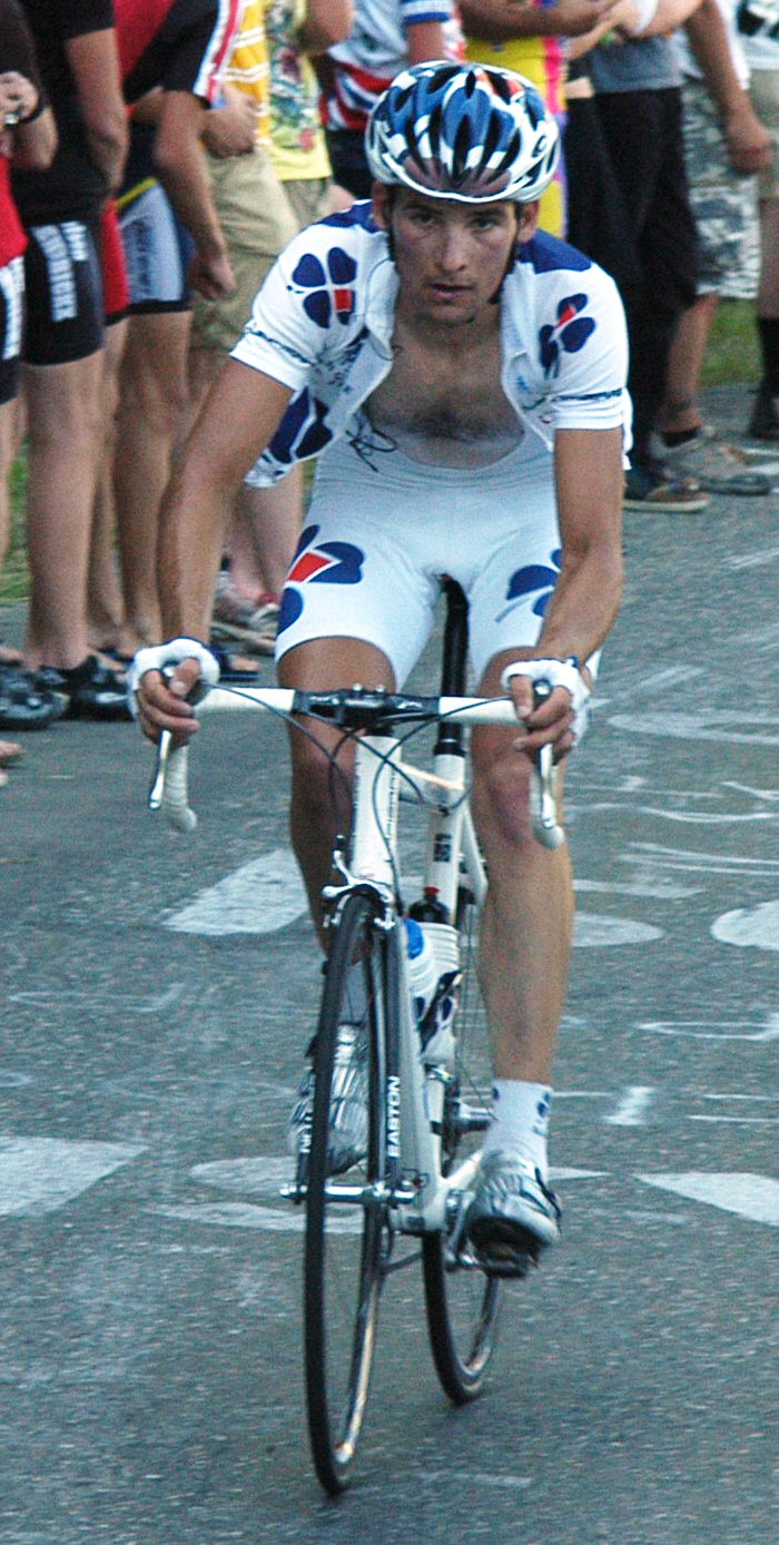 Benoît Vaugrenard at stage 7 of the Tour de France 2007 on the Col de la Colombière.